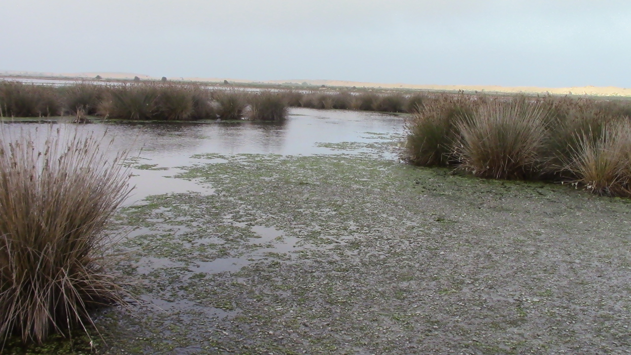 Sidi Moussa Lagoon Nature Preserve - View